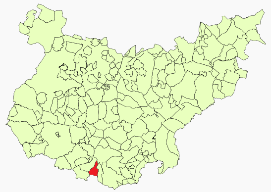 Cabeza la Vaca